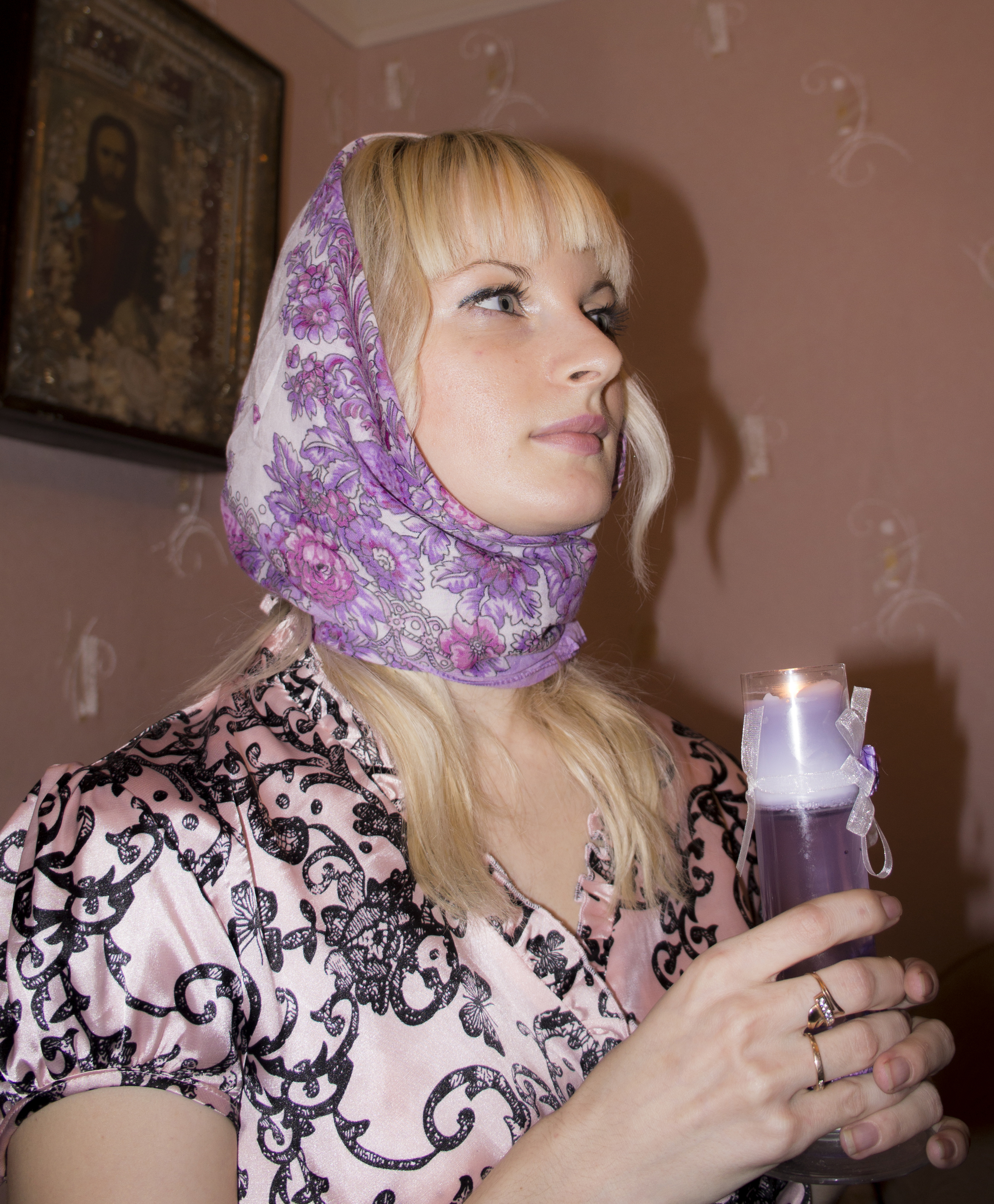 Celebrating Orthodox Christmas in Ukrainian city of Kharkiv. Српски (ћирилица): Украјинска верница за време Божића, Харков, Украјина.